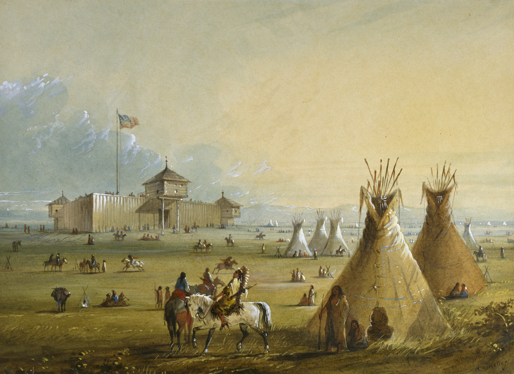 Founded by William Sublette and Robert Campbell, Fort Laramie lay at the crossroads of an old north-south Indian trail and what became known as the Oregon Trail. Called Fort Laramie because of the nearby Laramie Mountains and the Laramie Fork of the North Platte River, the post was approximately 150 feet square, according to Miller, with bastions at the diagonal corners. Miller's paintings are the only known visual records of the fort, because the original fort was torn down in 1840 before any other artist had traveled the Oregon Trail; it was replaced with another structure, located perhaps on the same site in 1841.